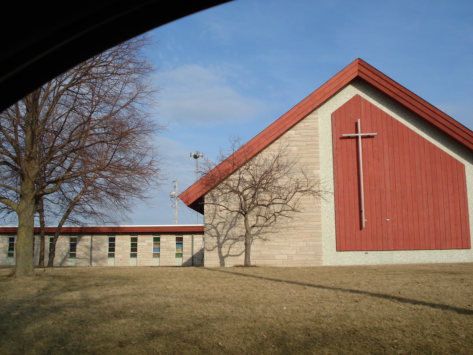 Mennonite Church, Meadows, Illinois